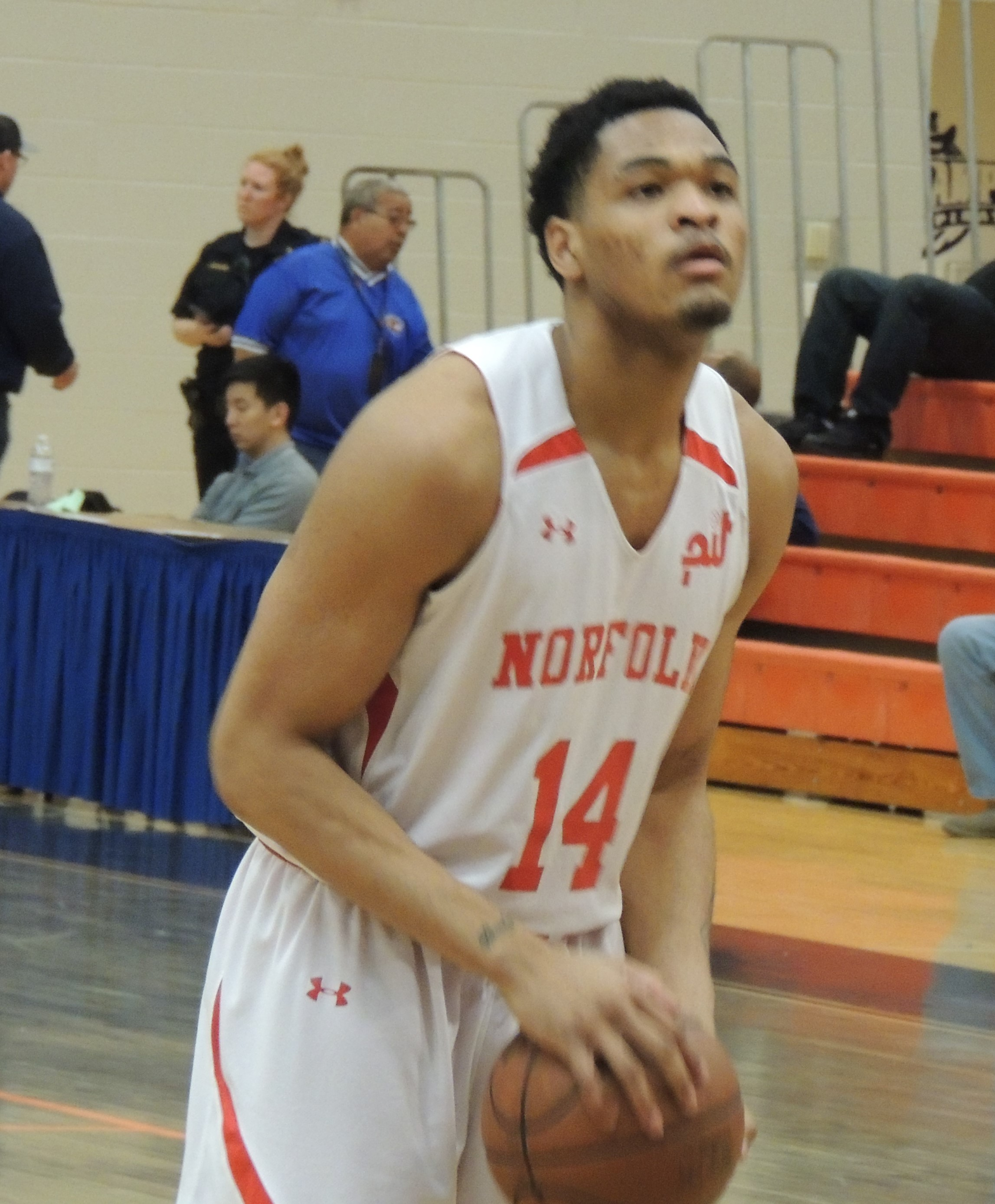 American basketball player James Palmer Jr. from the University of Nebraska at the 2019 Portsmouth Invitational Tournament.